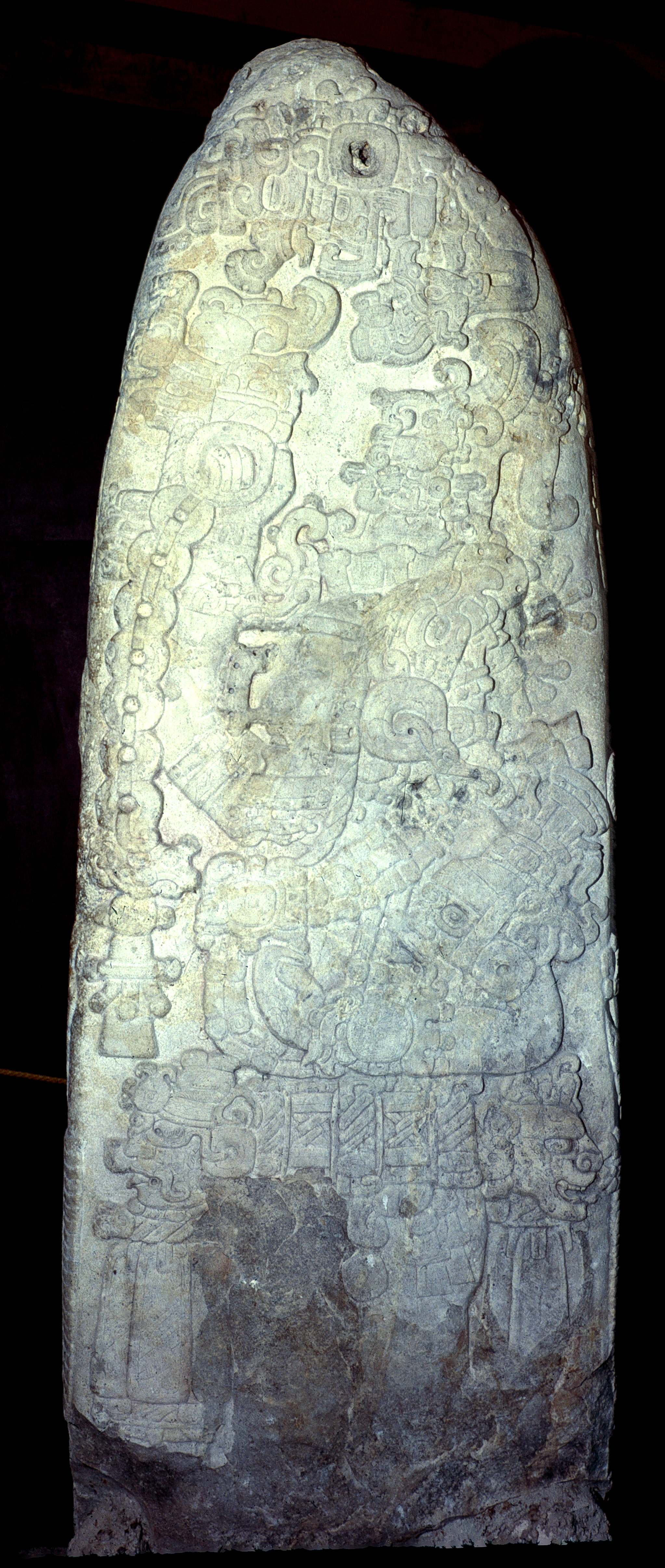 Tikal, Guatemala: Stela 31